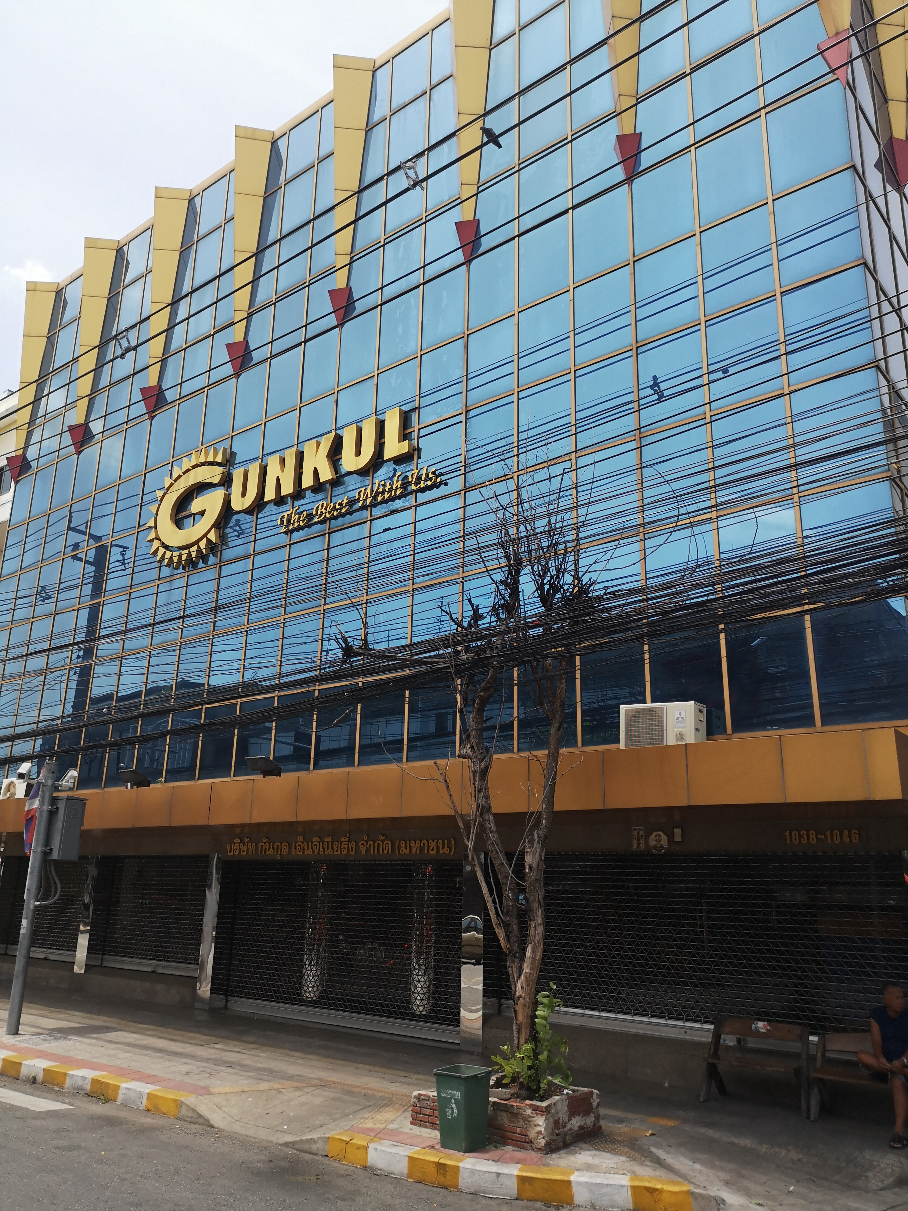 Headquarter of Gunkul